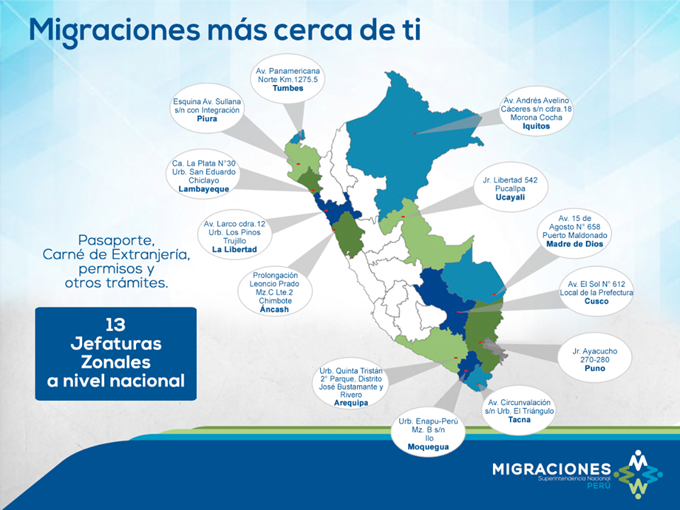 Migraciones del Perú cuenta con 13 Jefaturas Zonales a nivel nacional.